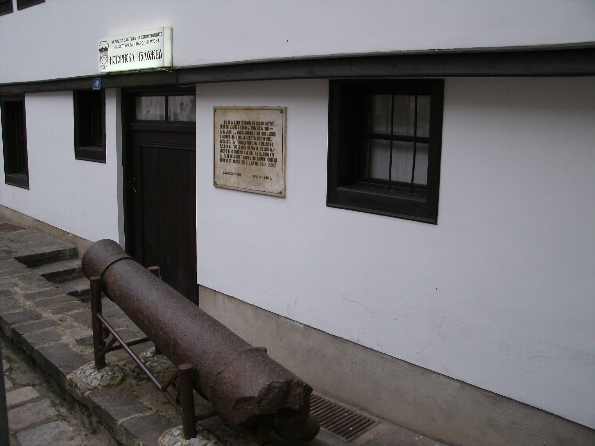 House of family Uzunovi from Ohrid, Hristo and Angel Uzunovi - bulgarian revolutionaries